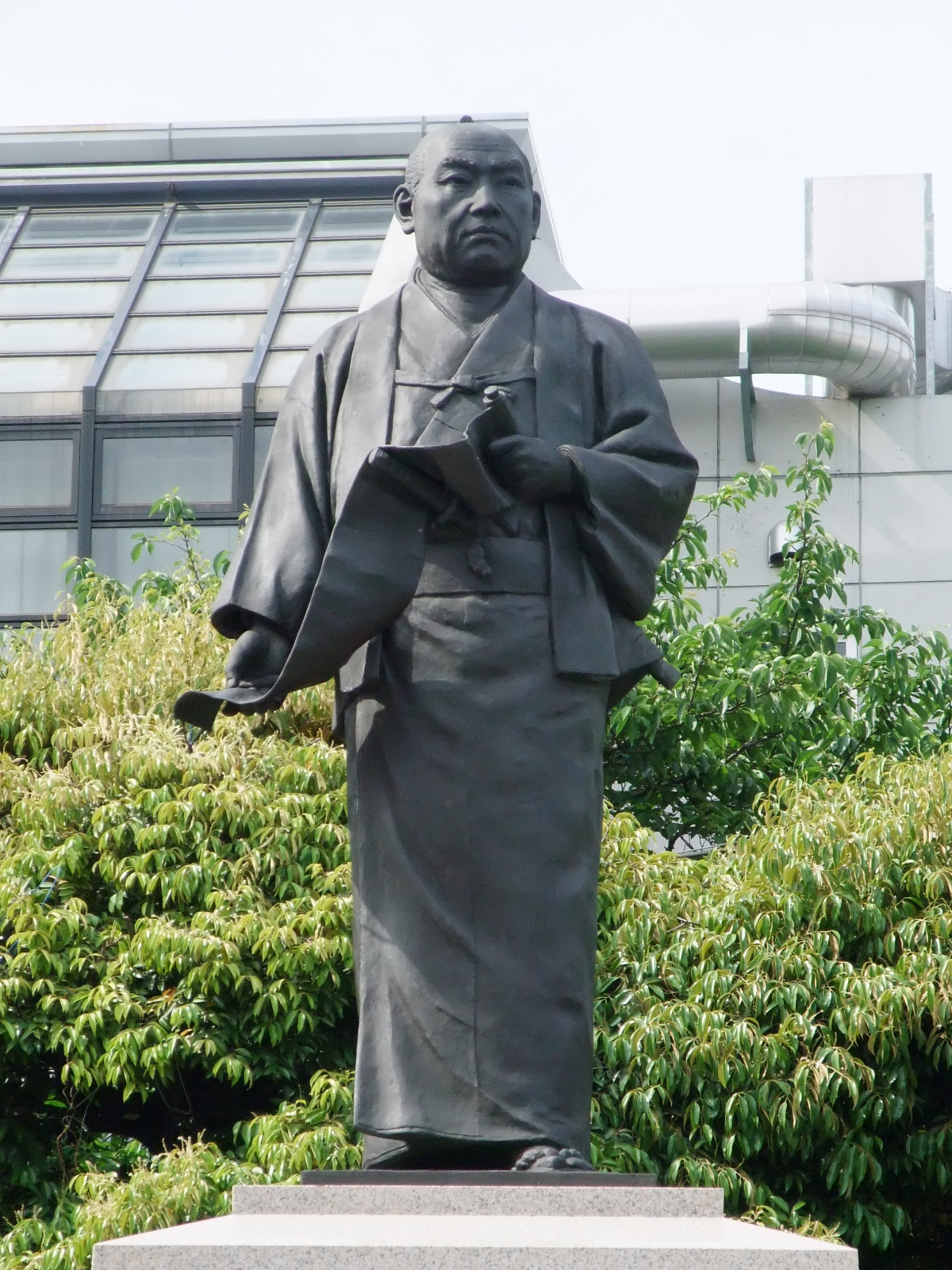 Statue of Oishi Kuranosuke Yoshio at Sengaku-ji temple in Minato-ku, Tokyo